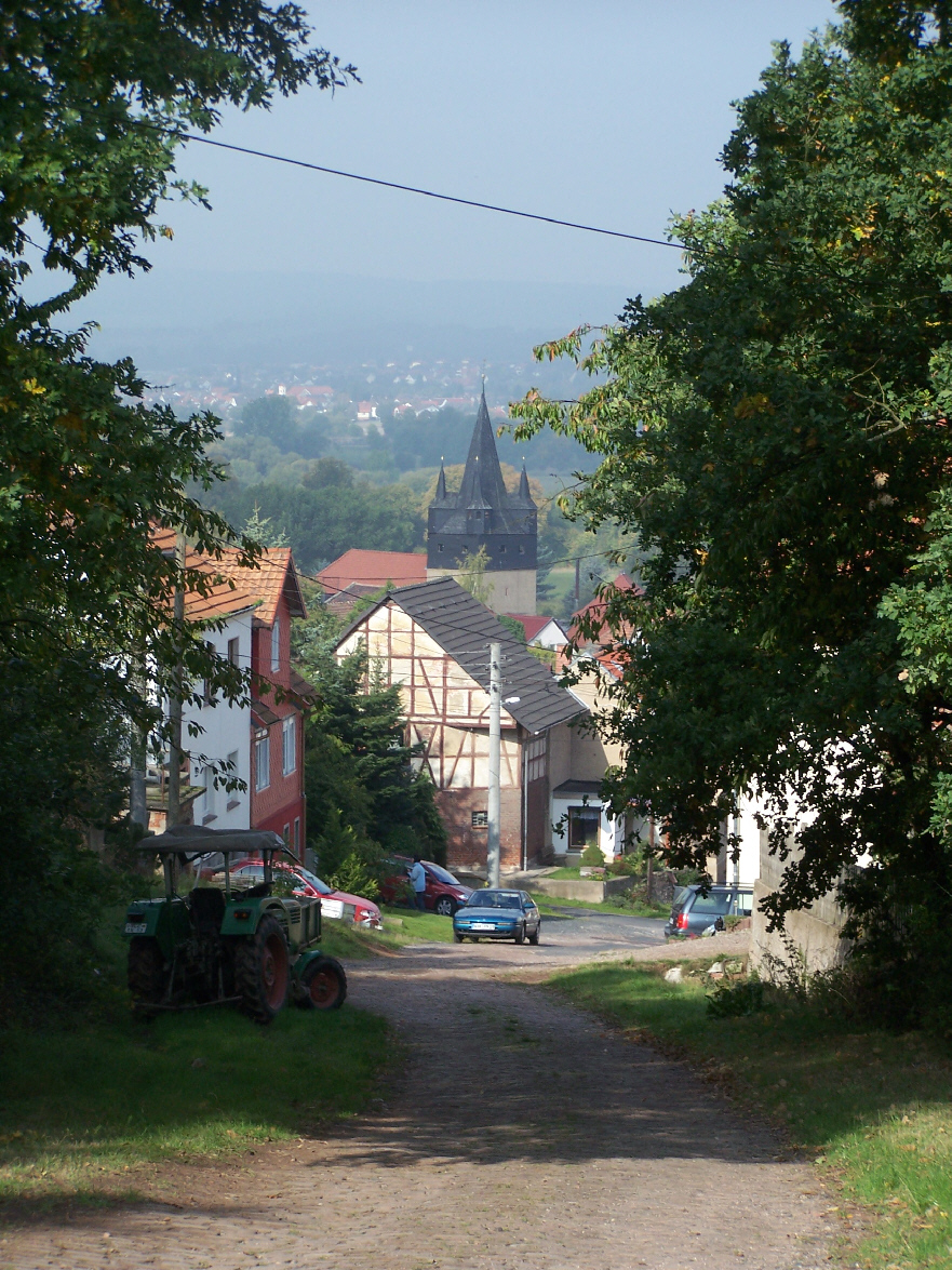 A overwiew of Berka/Werra at the old Weingassentor.